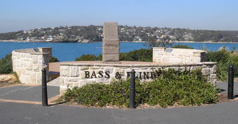 Bass & Flinders Point.